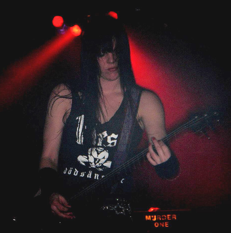 Mia Coldheart performing live at Brixton Academy, November 2006